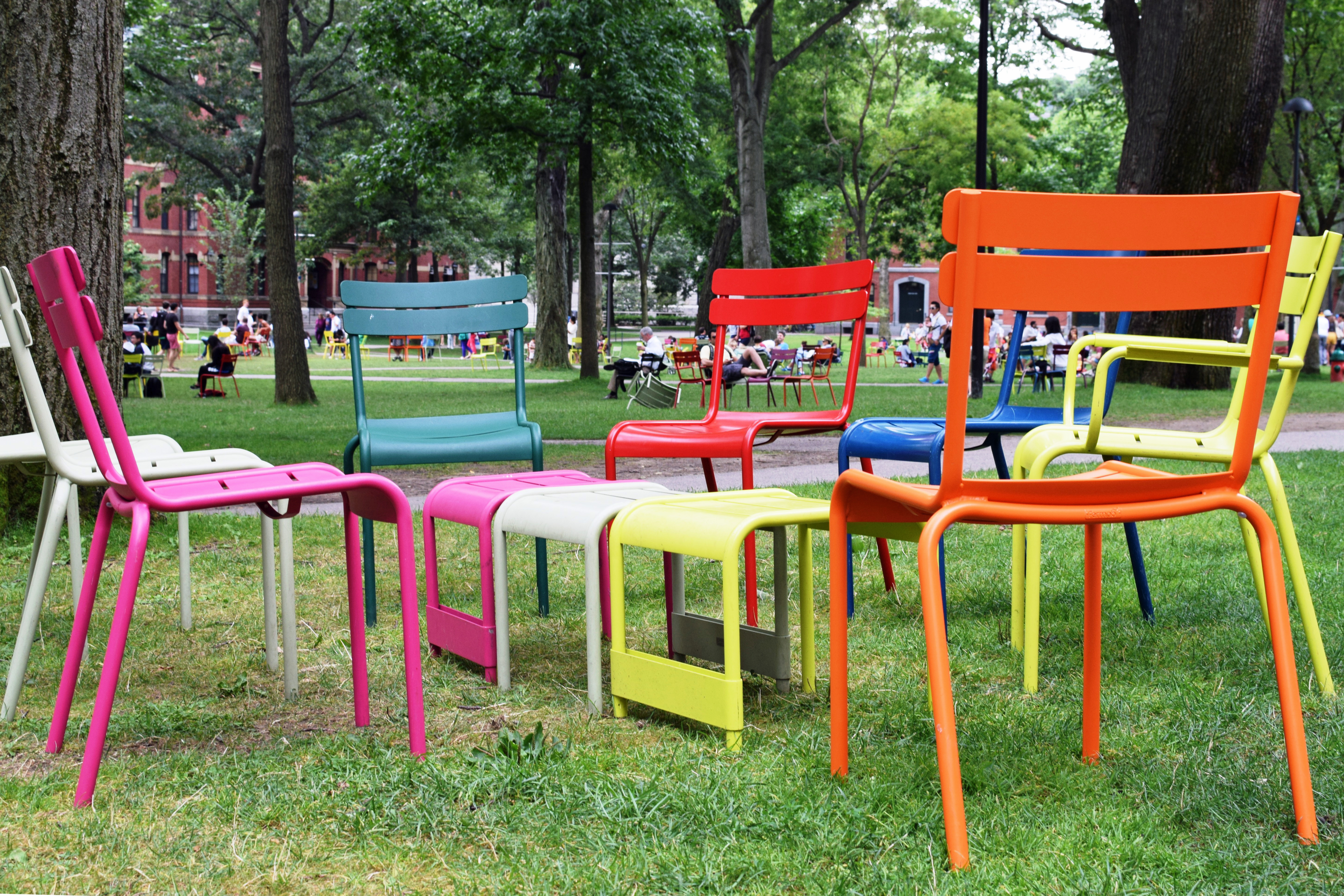 An assortment of chairs awaits visitors to Harvard Yard in Cambridge, Mass.